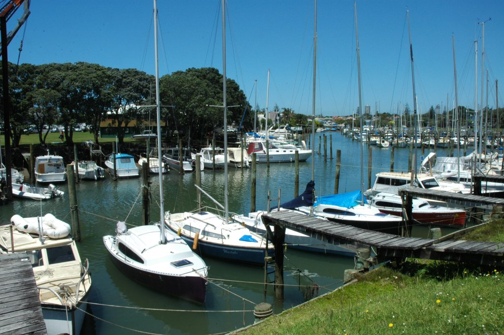 This is Milford Marina on a nice sunny day recently.